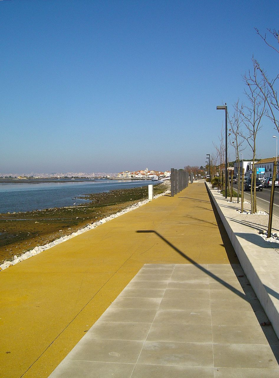 See where this picture was taken. [?]